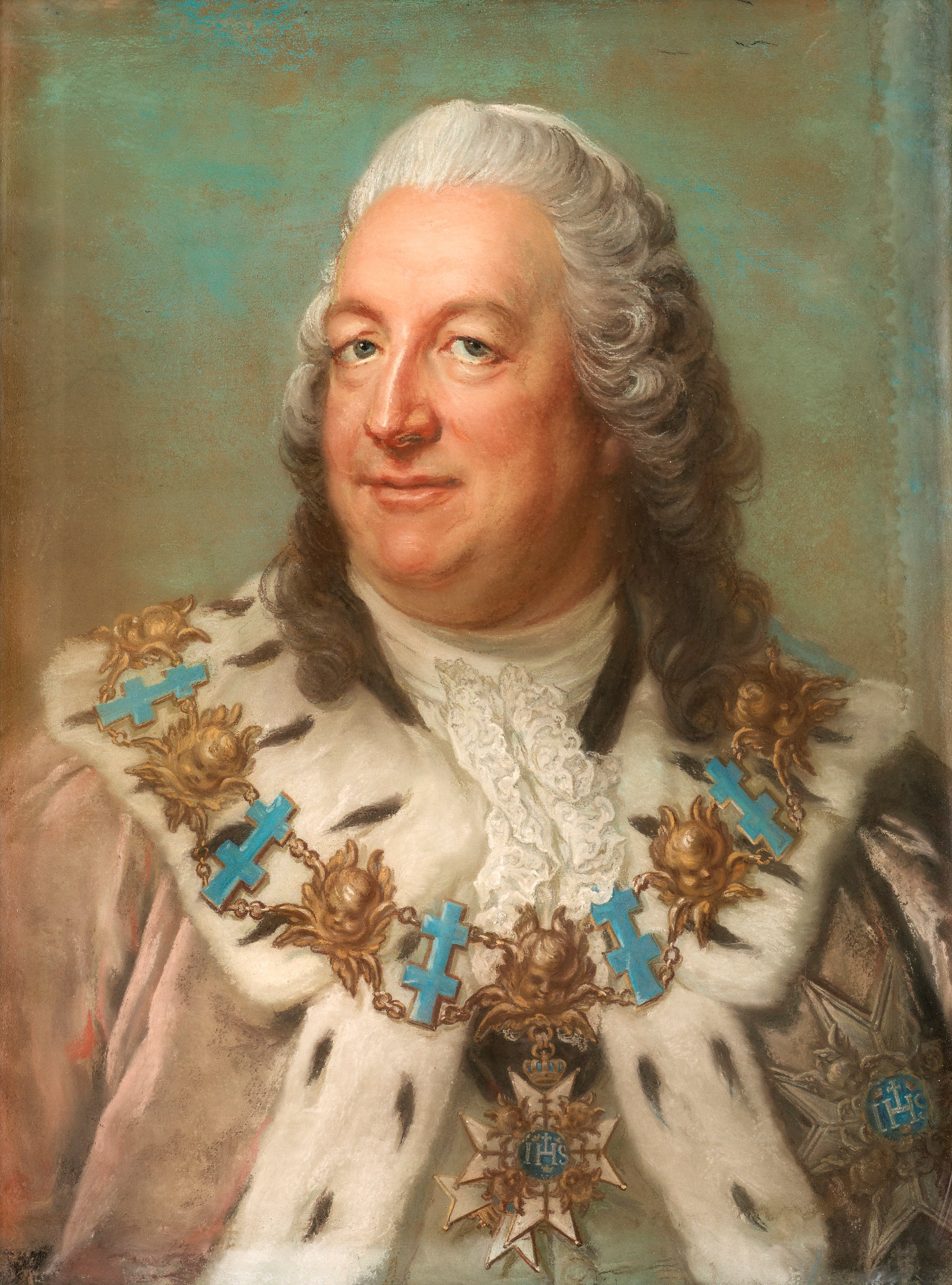 Count Mattias von Hermansson (1716-1789)label QS:Len,"Count Mattias von Hermansson (1716-1789)"